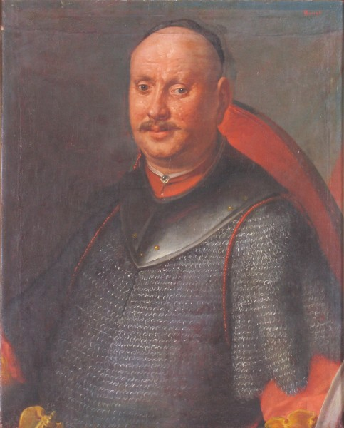 Portrait of Kazimierz Boreyko.